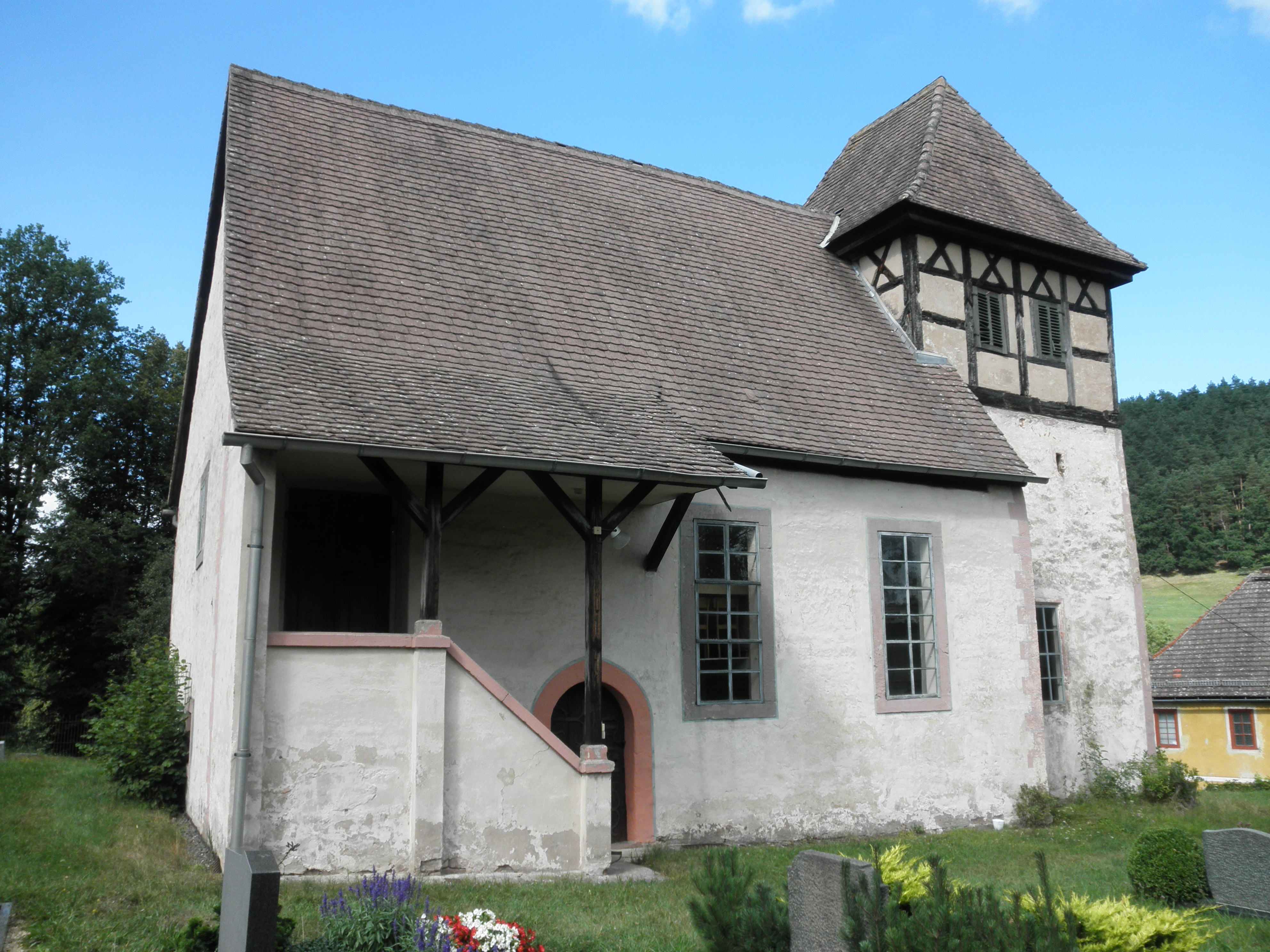 Church in Karlsdorf (Thüringen) in Thuringia